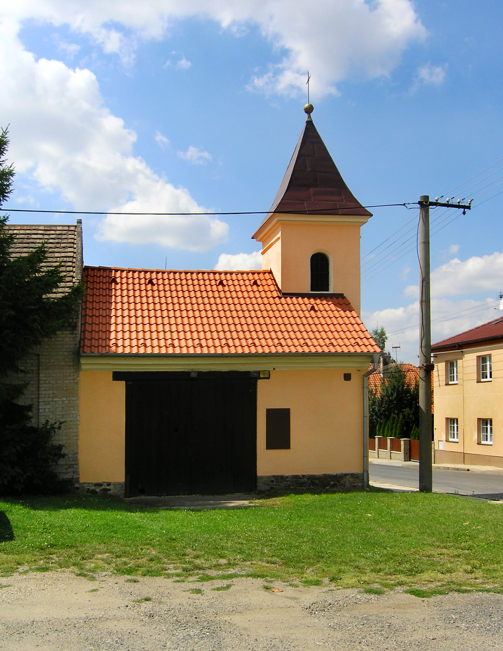 Bell Tower in Horní Bezděkov, Czech Republic